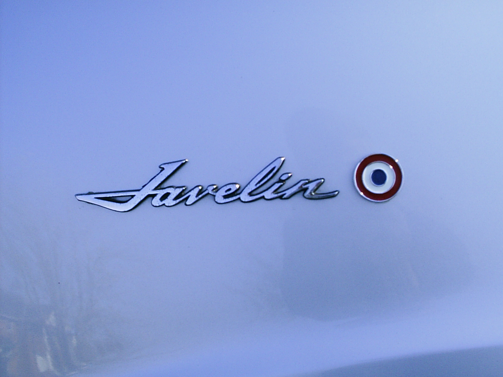 Detail of name badge of a 1971 Javelin SST coupe, built by American Motors Corporation (AMC), a pony car equipped with AMC's 360 CID (5.9 L) V8 engine, in factory original condition.